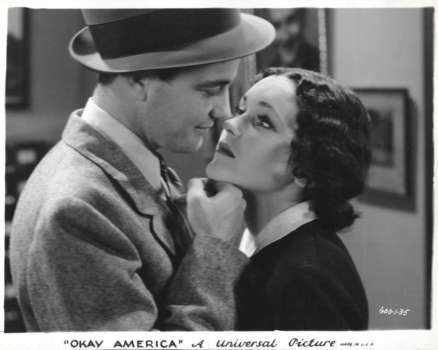 Lew Ayres and Maureen O'Sullivan in Okay, America!, 1932. Promo Photo 7 3/4 x 10 (inches)